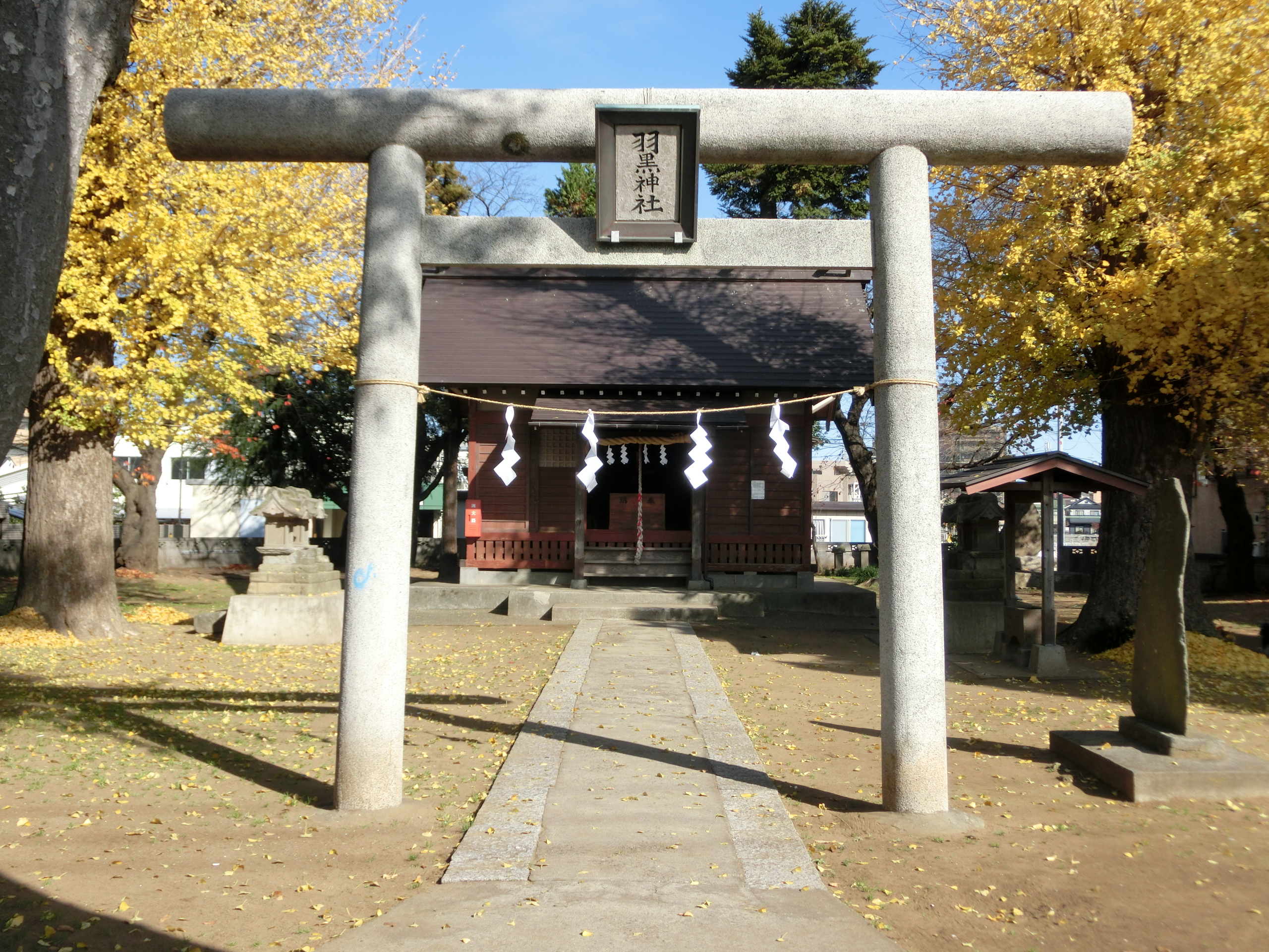 Haguro Jinja (Funabashi)